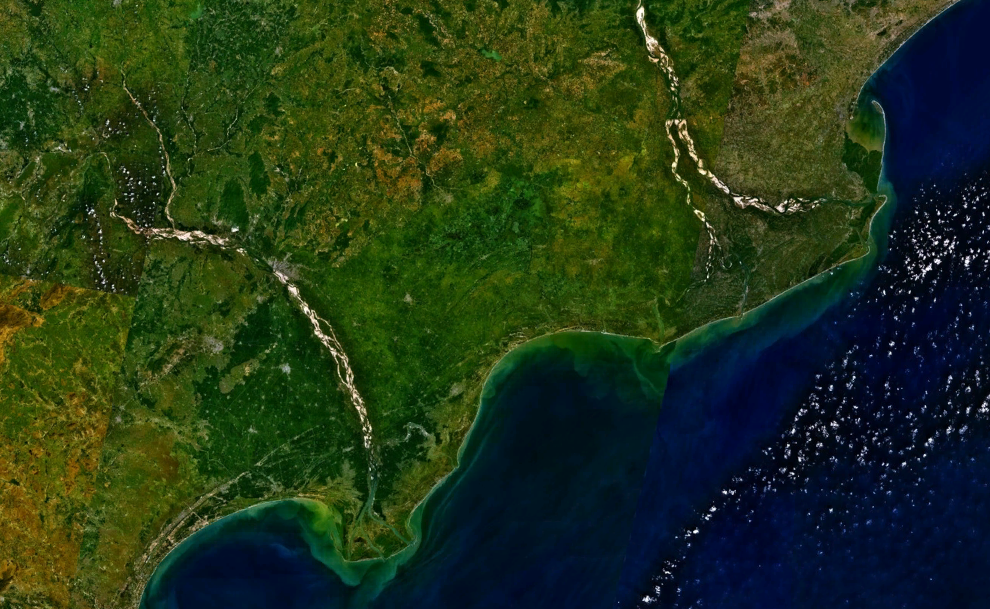 NASA Landsat 7 Image of the Krishna-Goadavari Delta.